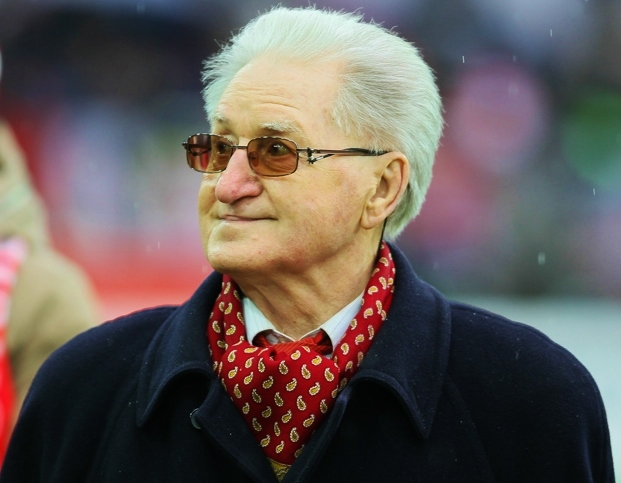 Aleksei Paramonov